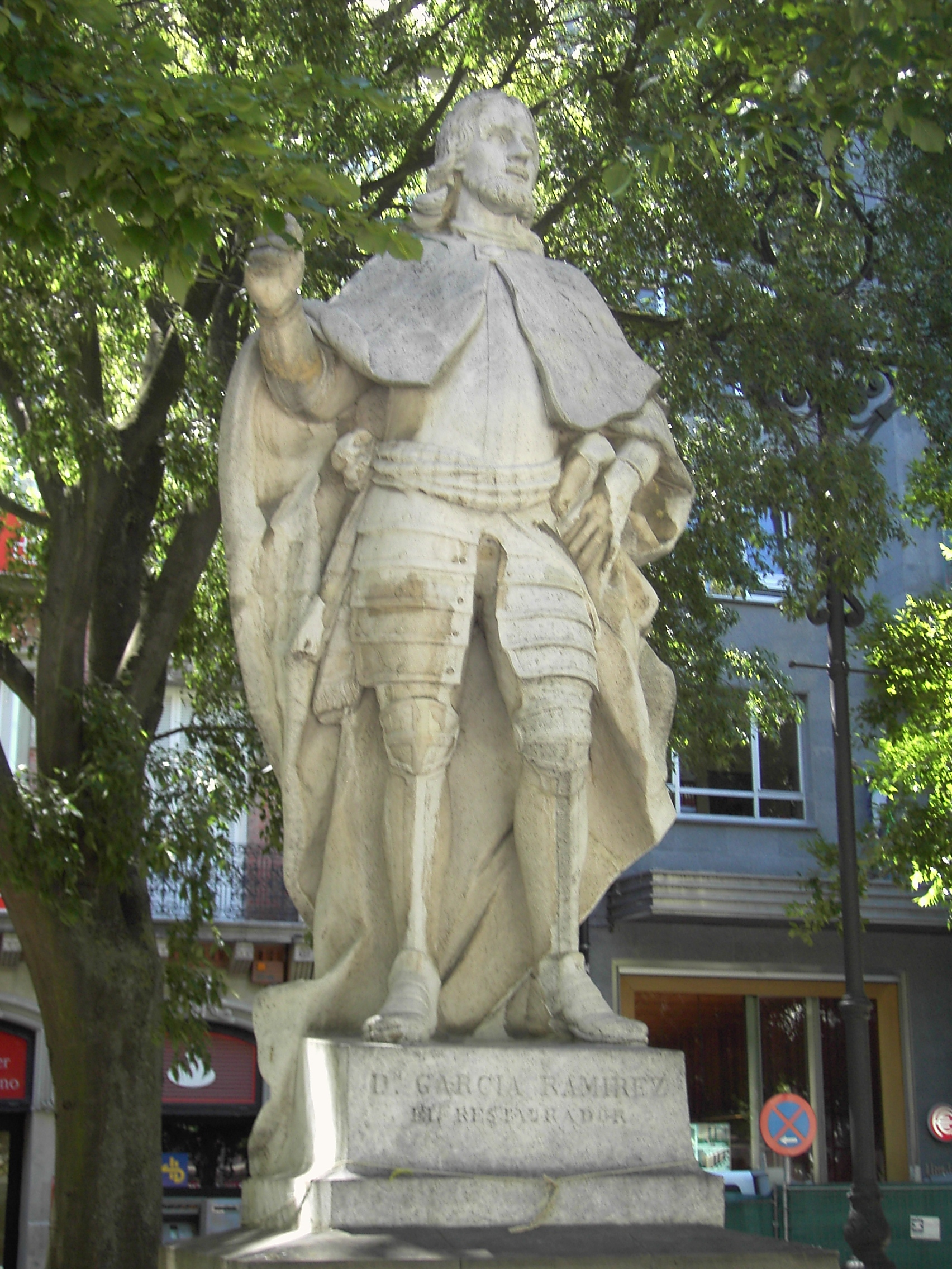 Statue of medieval king Garcia the IVth, ordered by Fray Martín Sarmiento to be located on the roof of the Royal Palace of Madrid. Located in Pamplona.